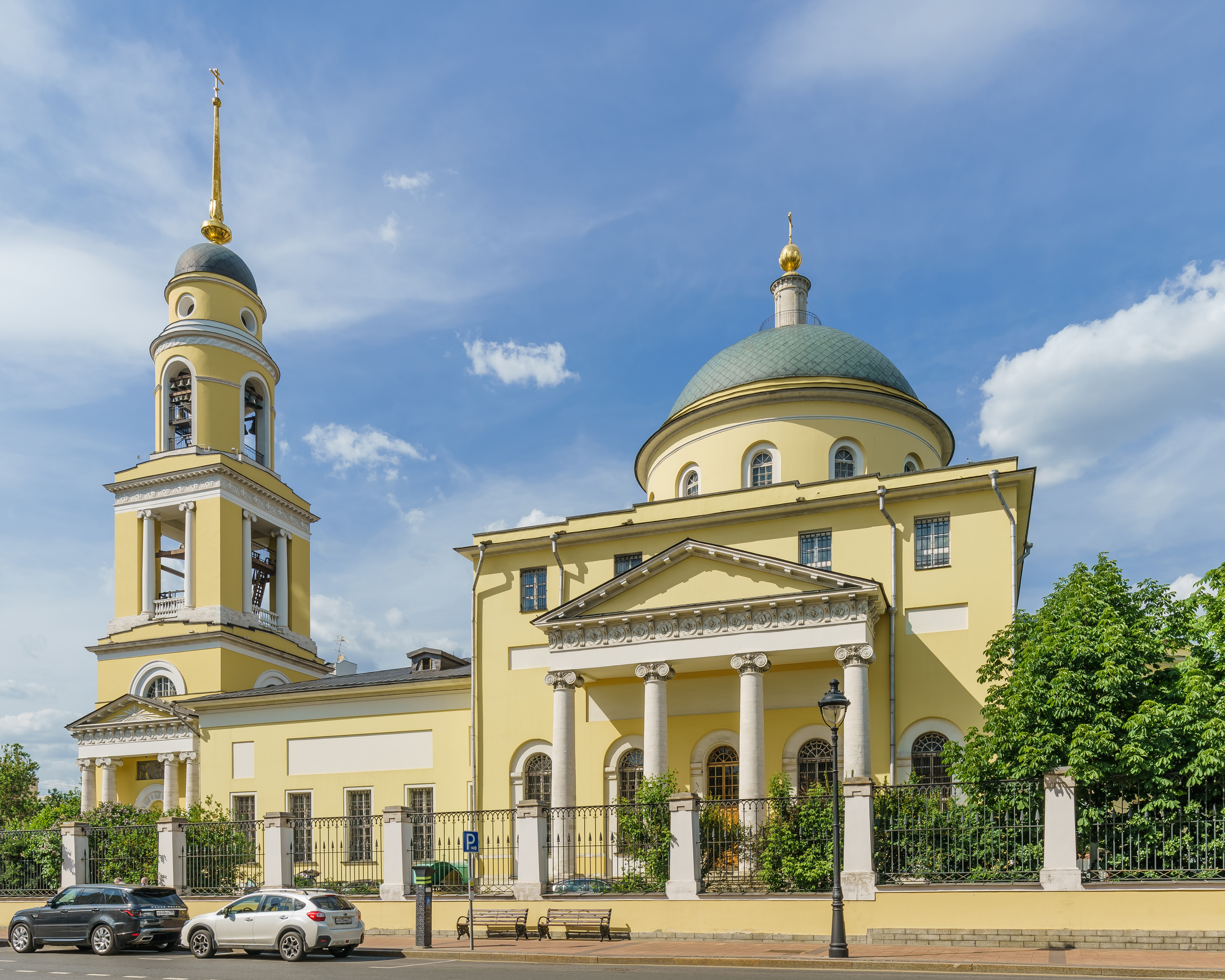 Great Ascension Church in Moscow, Russia